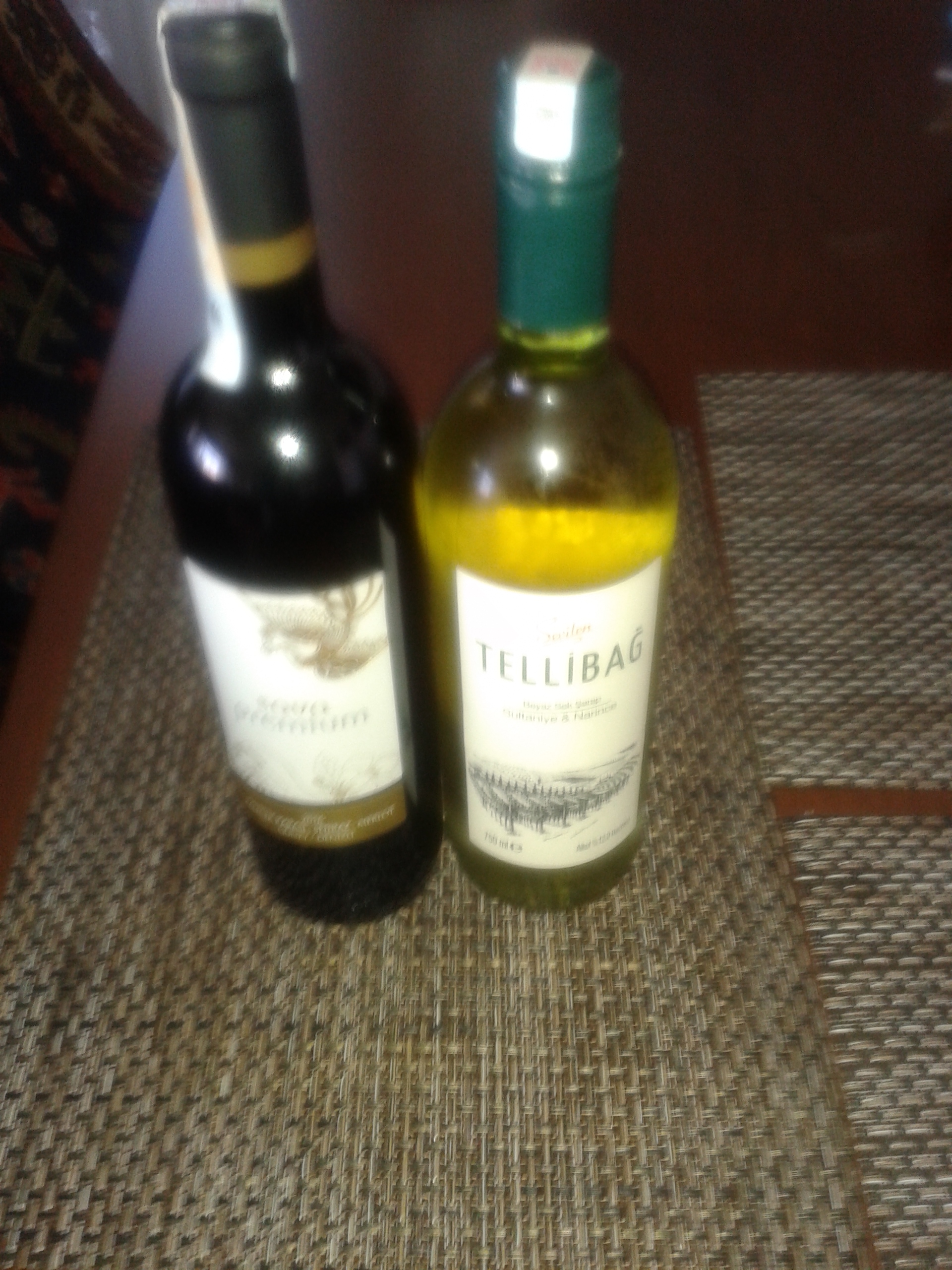 White and red wine from Turkey.